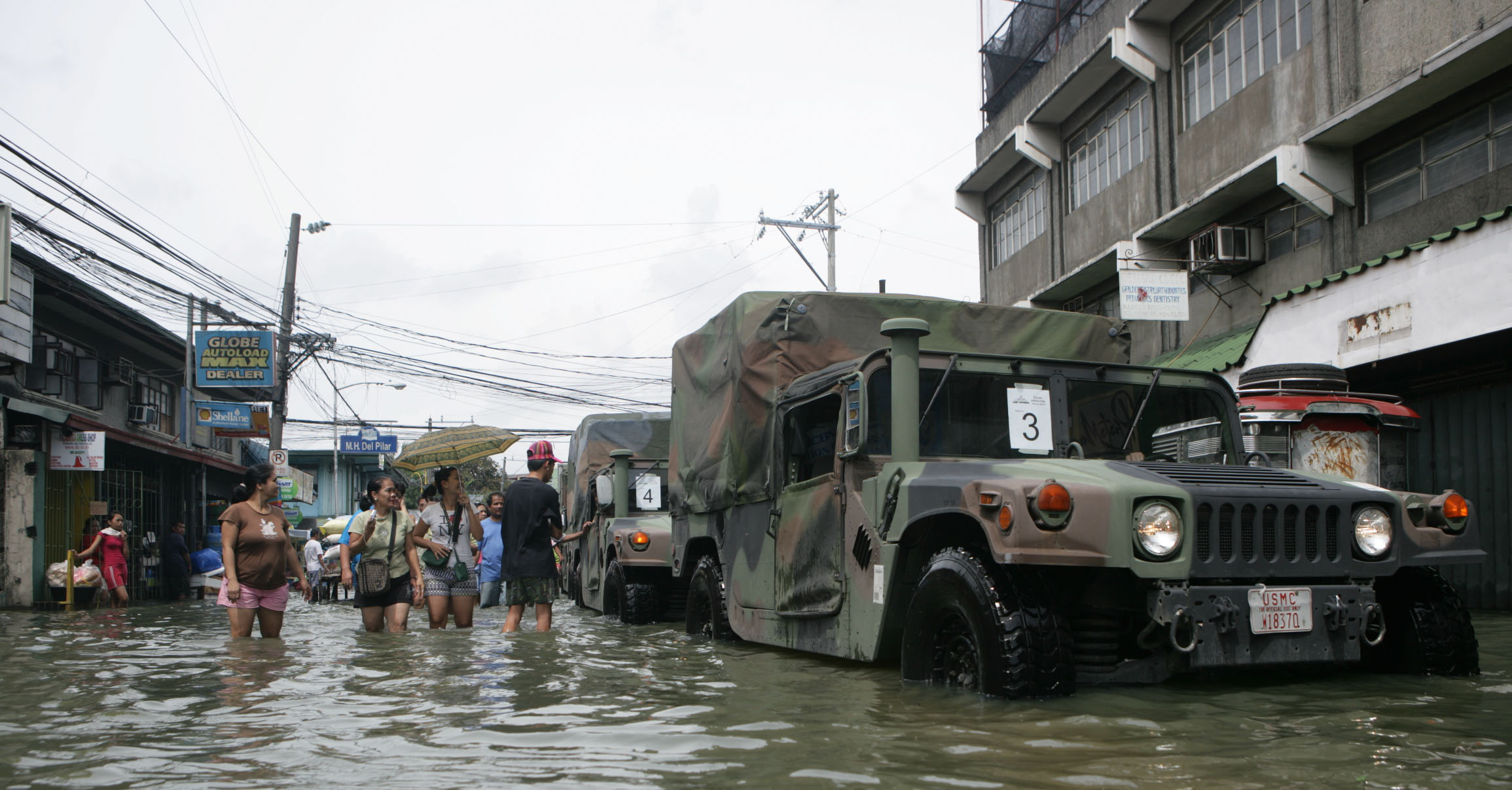 MANILA (Oct. 5, 2009) Members of the U.S. Armed Forces and the Armed Forces of the Philippines deliver family food packs donated by local businesses and private organizations to aid communities affected by Tropical Storm Ketsana. (U.S. Marine Corps photo by Lance Cpl. Marie Matarlo/Released)